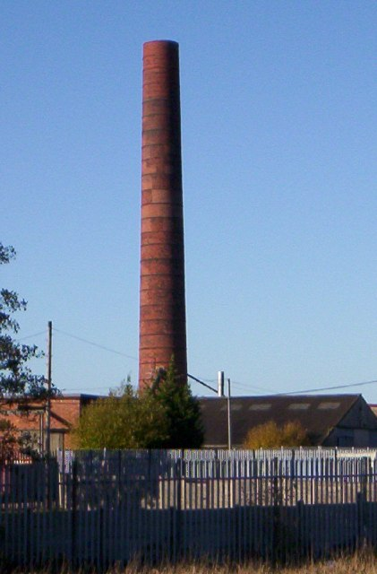 Chimney of the former Maypole Colliery, Abram, Greater Manchester. It has been reduced from its original height by several metres.